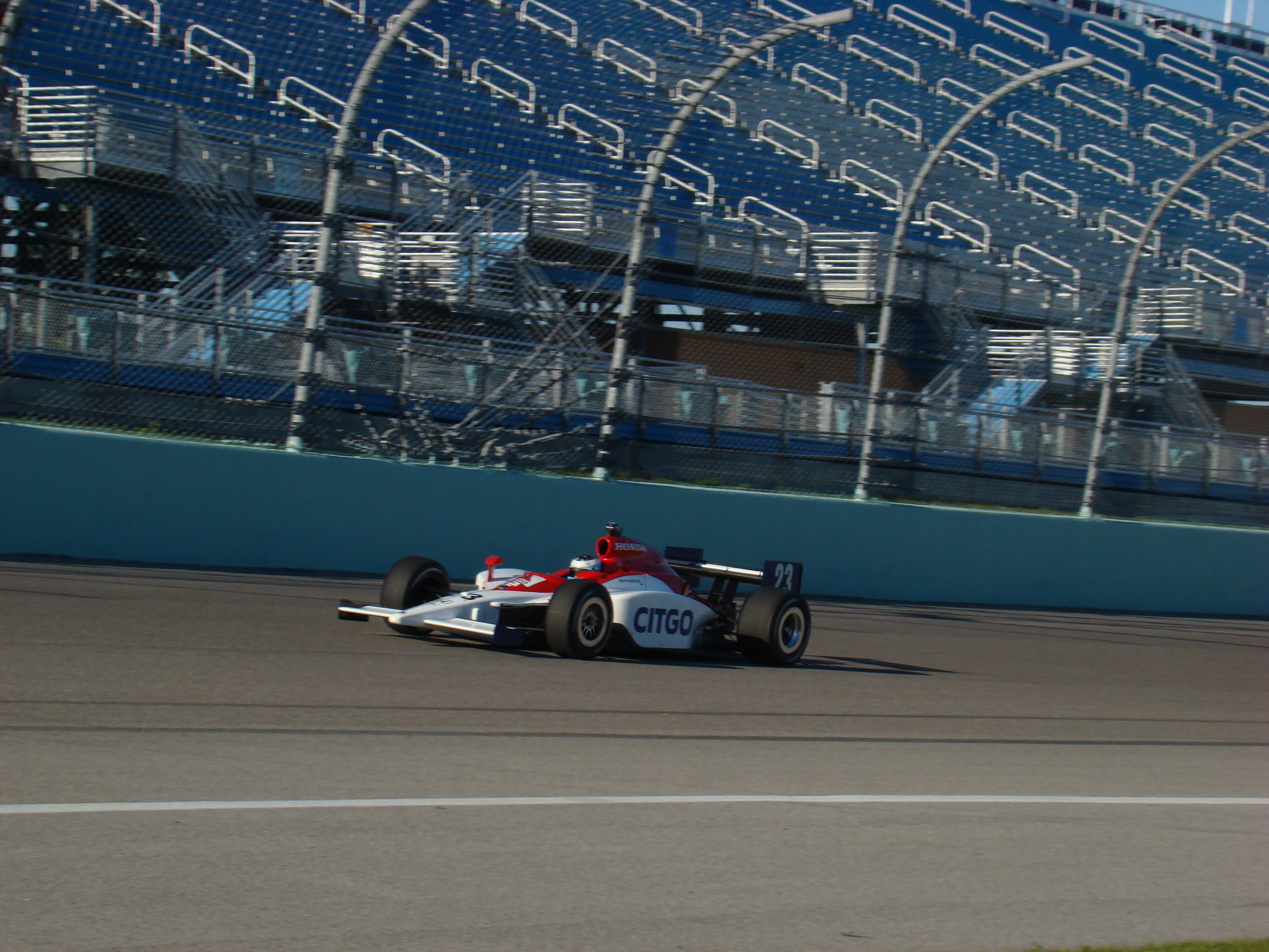 Milka Duno testing with Dreyer and Reinboldt Racing at Homestead-Miami Speedway.